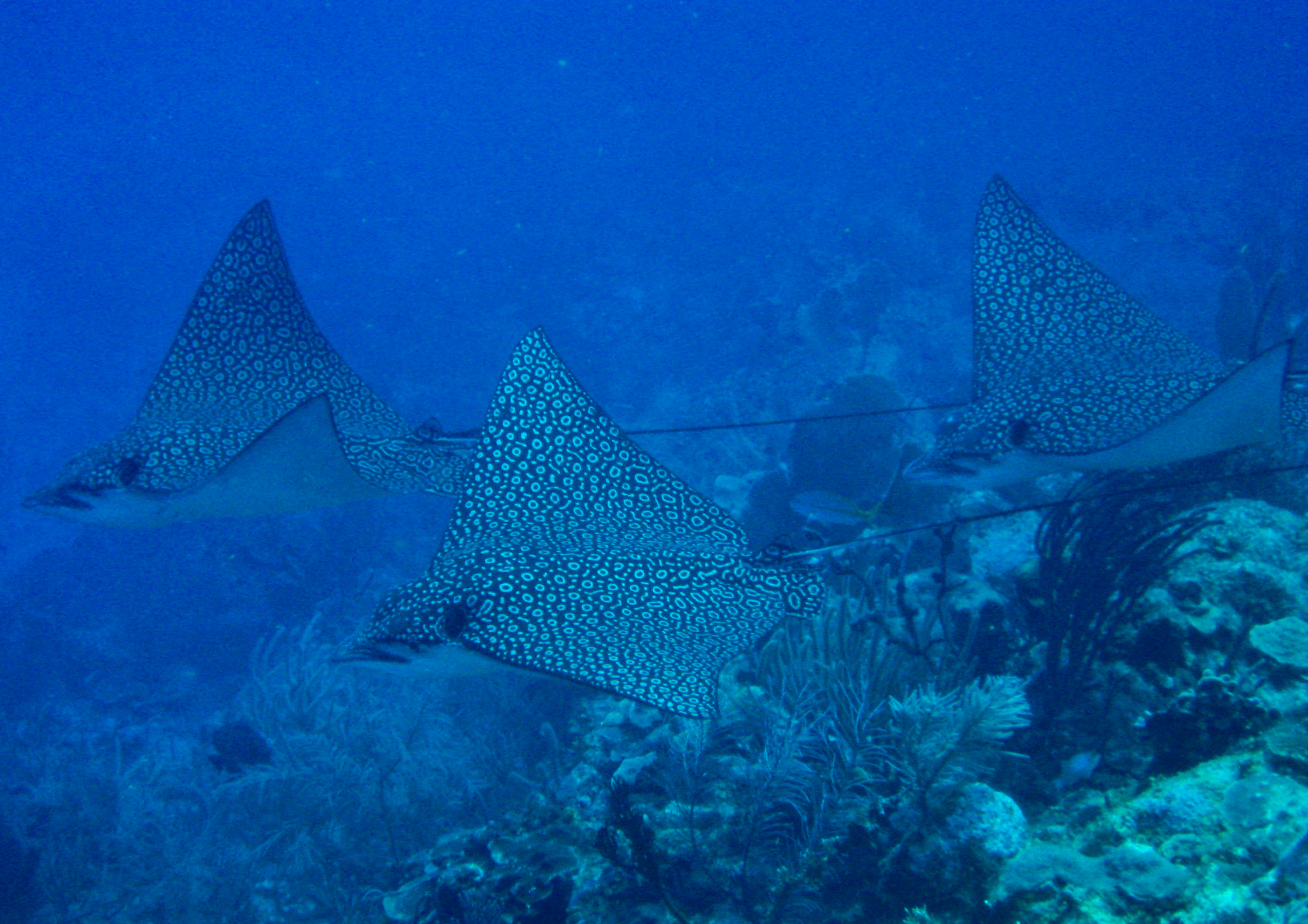 Spotted eagle rays (Aetobatus narinari) off Belize